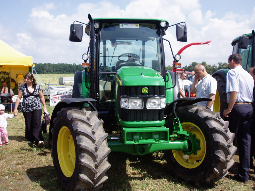 John Deere 5820 tractor